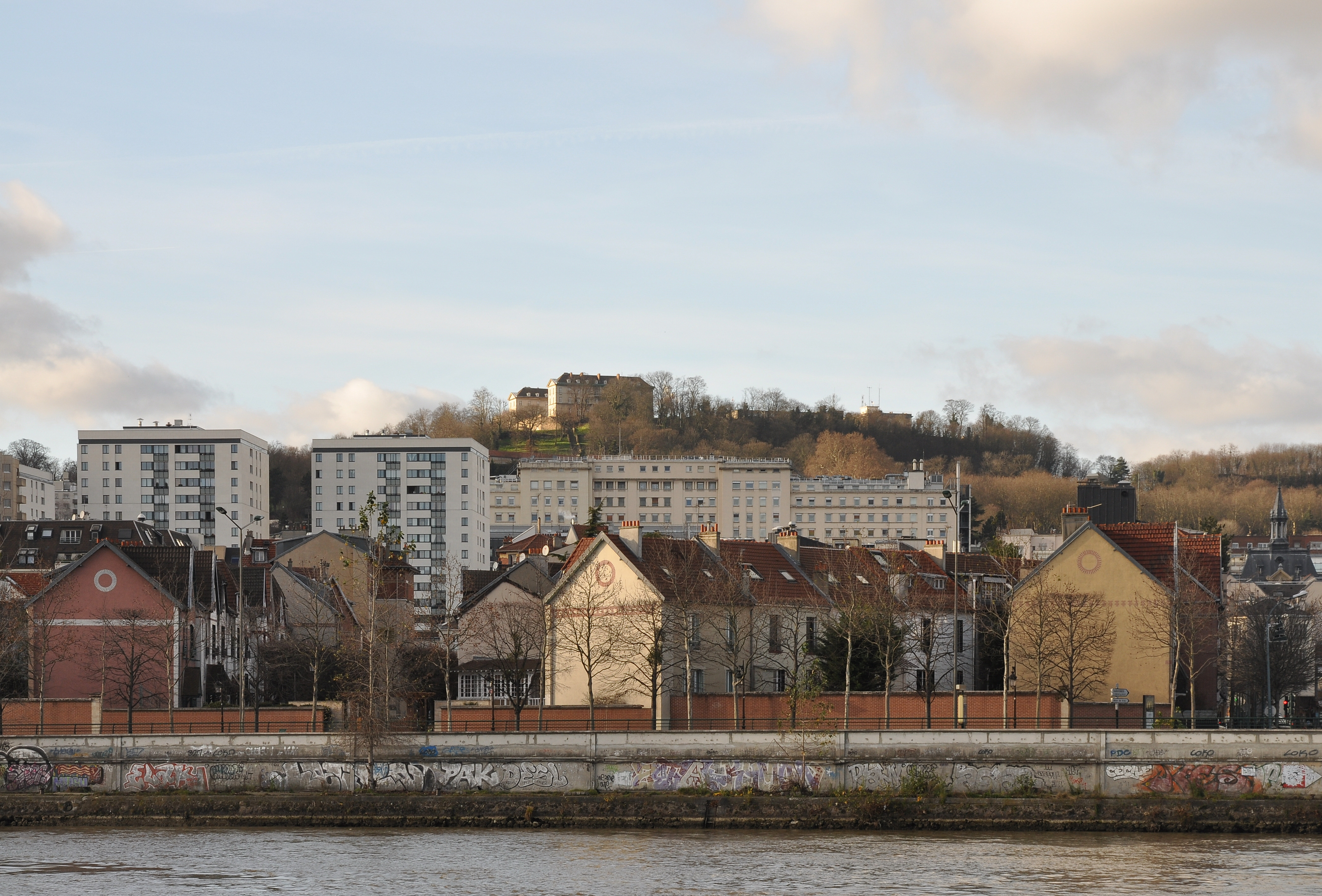 Suresnes, view from the banks of river Seine, department of Hauts-de-Seine in France.